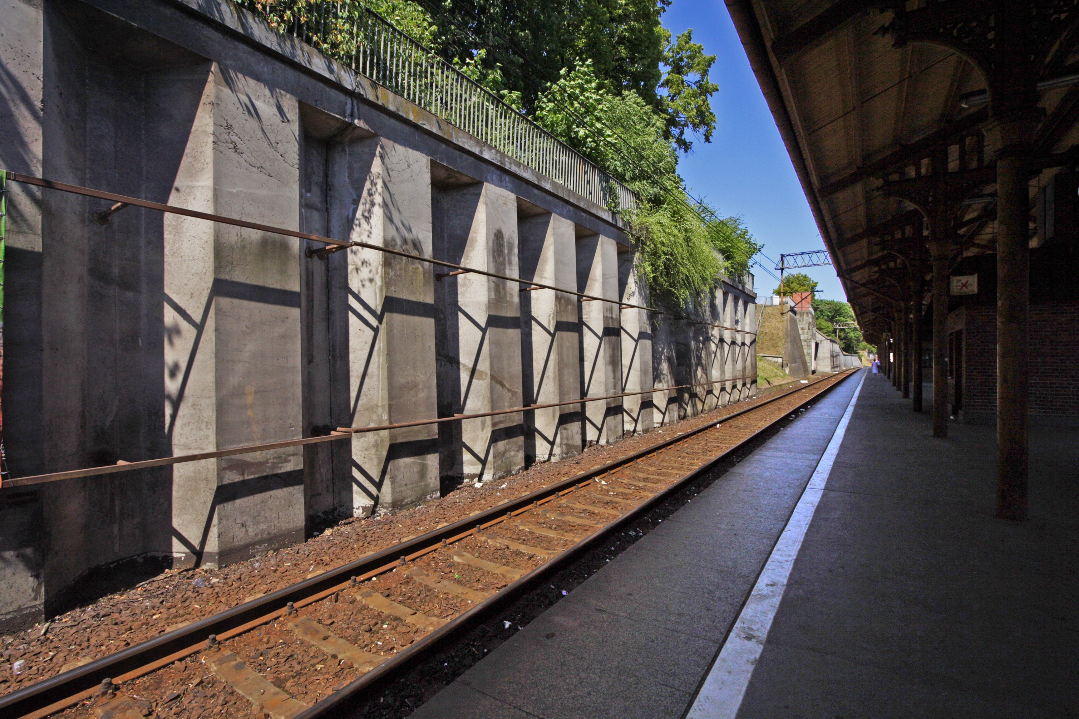 Gdańsk Główny. Picture taken in Gdańsk after Wikimania 2010 conference.